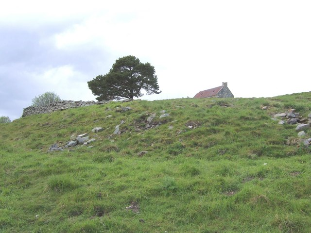 Site of Badenyon Castle A flat-topped mound just to the east of the present-day Badenyon farm looks as though it may have been where the castle (now disappeared) may have stood. McConnochie in DONSIDE (1900) wrote of it: According to tradition, built by one of the Mowats in the 13th century. John of Badenyon has been rendered famous by a ballad by Rev. John Skinner. Mowat's Stone stood between Glenbucket Lodge and Badenyon; it was, alas, broken up by a mason for building purposes.